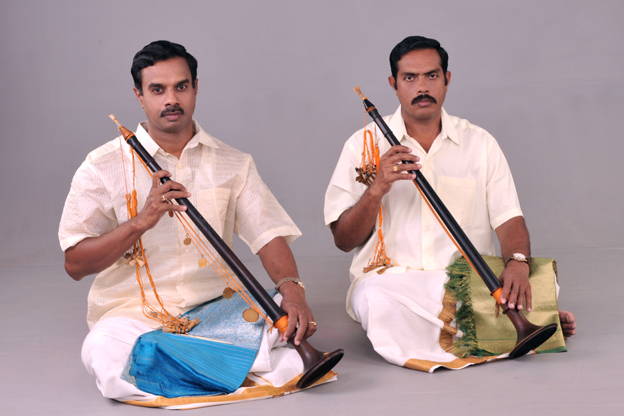 Kasim-Babu are eminent Nadhaswaram Artistes of INDIA.